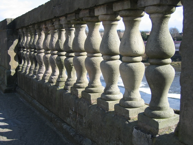 Photograph